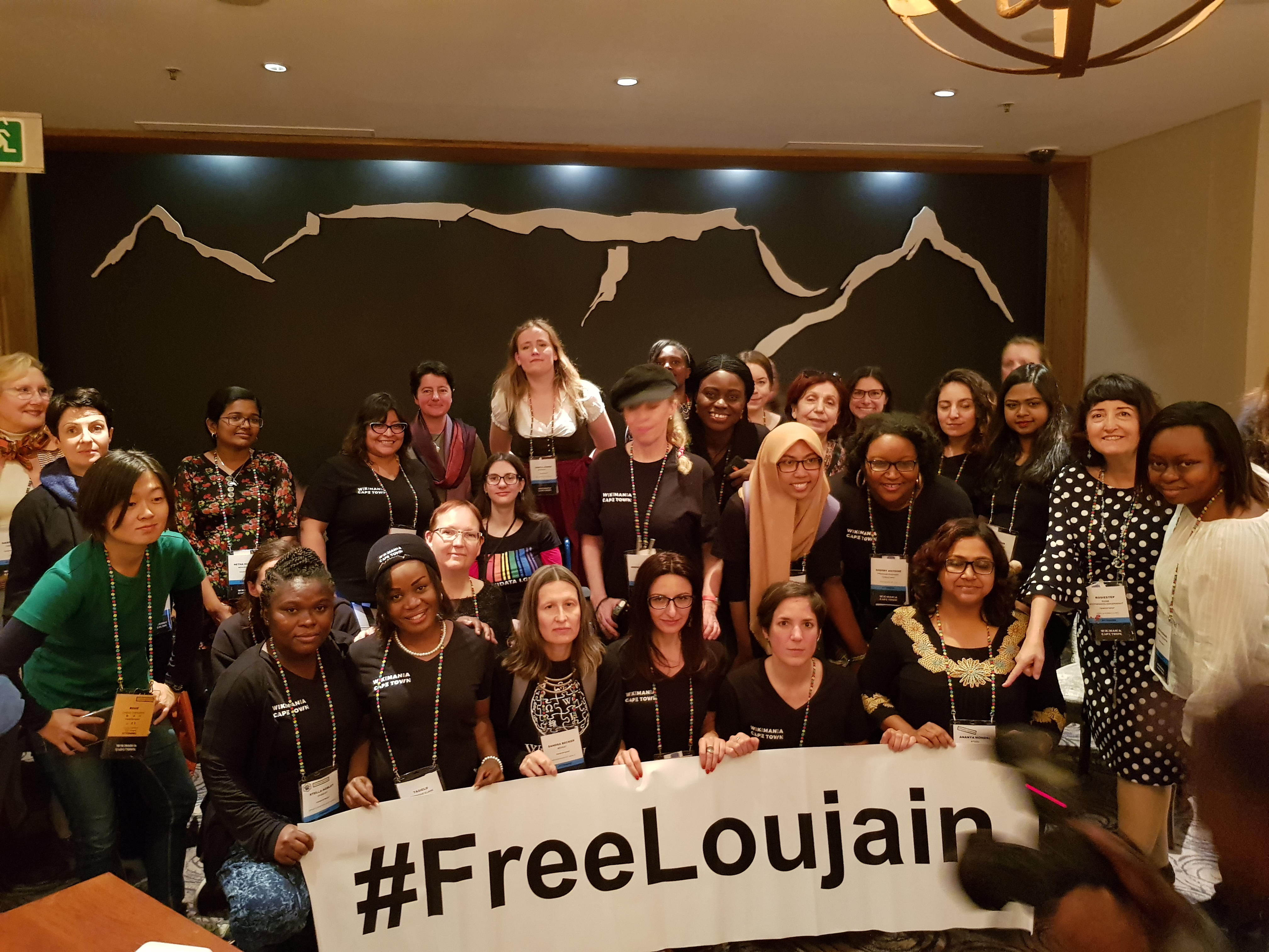 WikiWomen support photo for LoujainAlHathloul #FreeLoujain